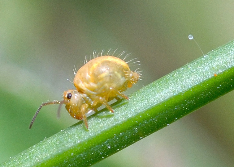 A small springtail, Sminthurus viridis with a spermatophore. Cropped section of the file Sminthurus viridis (det F. Janssens).jpg